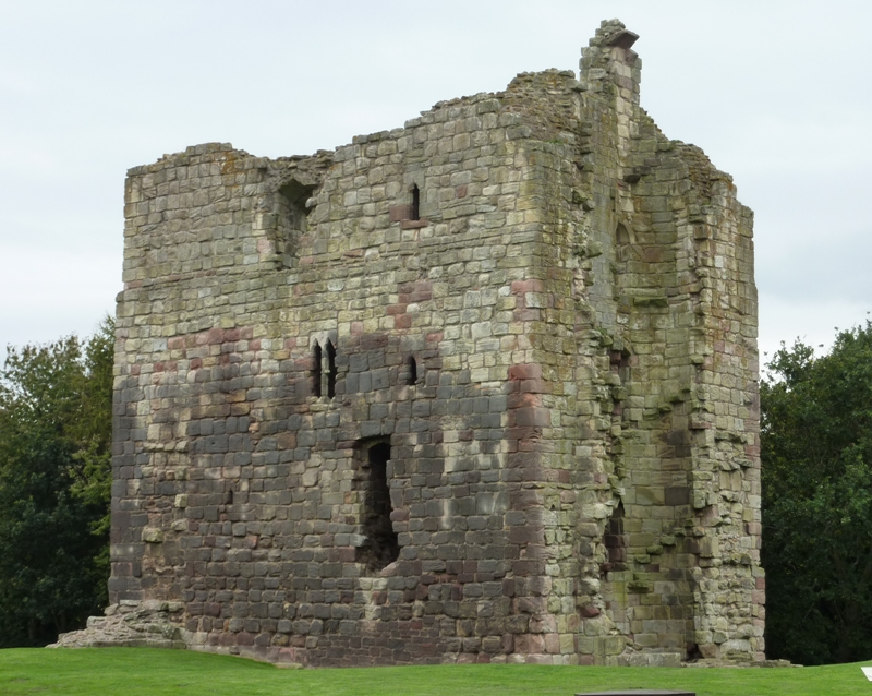 Etal Castle, Northumberland, England. Donjon viewed from the south.